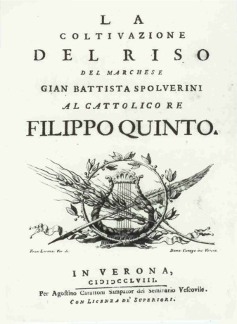 Frontispiece of The Cultivation of Rice printed at Verona in 1758 - Italy